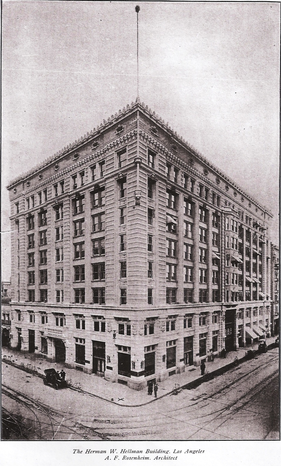 Photograph of H.W. Hellman Building designed by Alfred Rosenheim